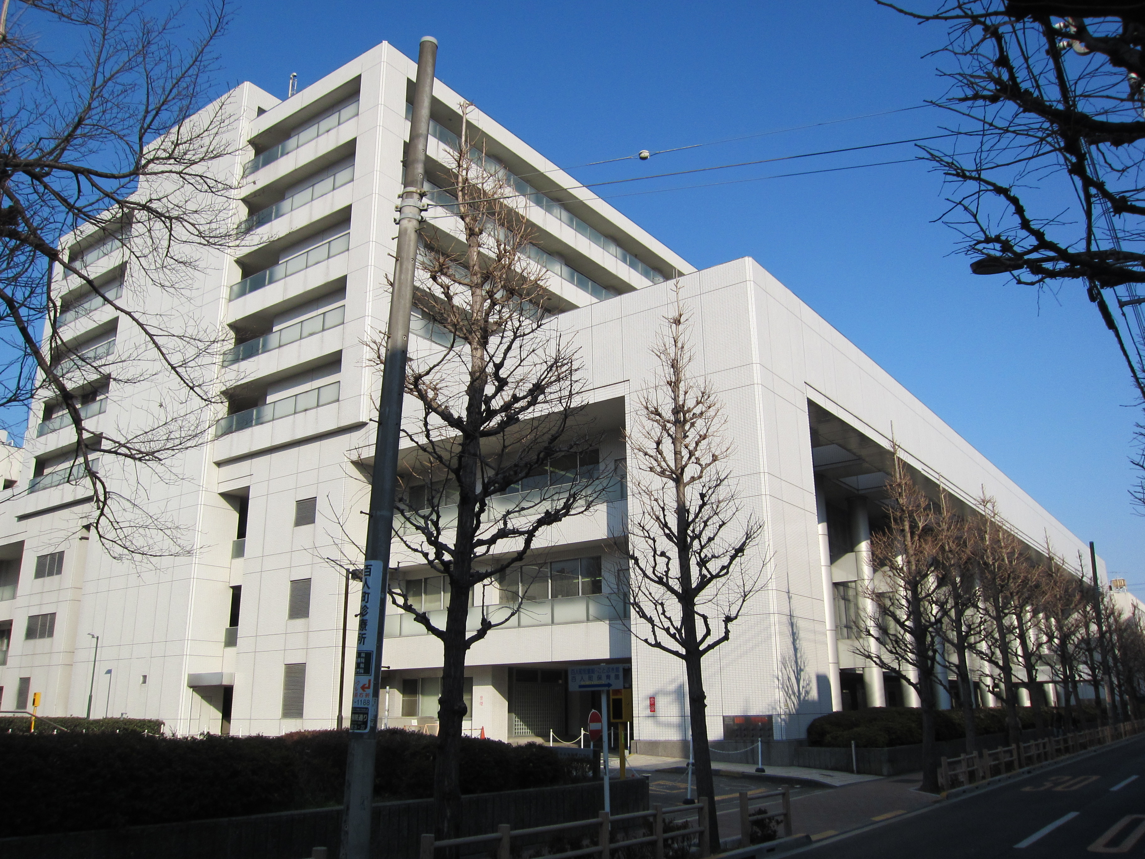 Social Insurance Chuo General Hospital